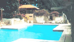 Picture of Los Baños de Coamo which I took Picture of Los Baños de Coamo which I took